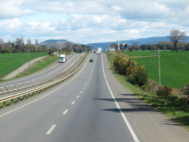 Rodovia no Chile.